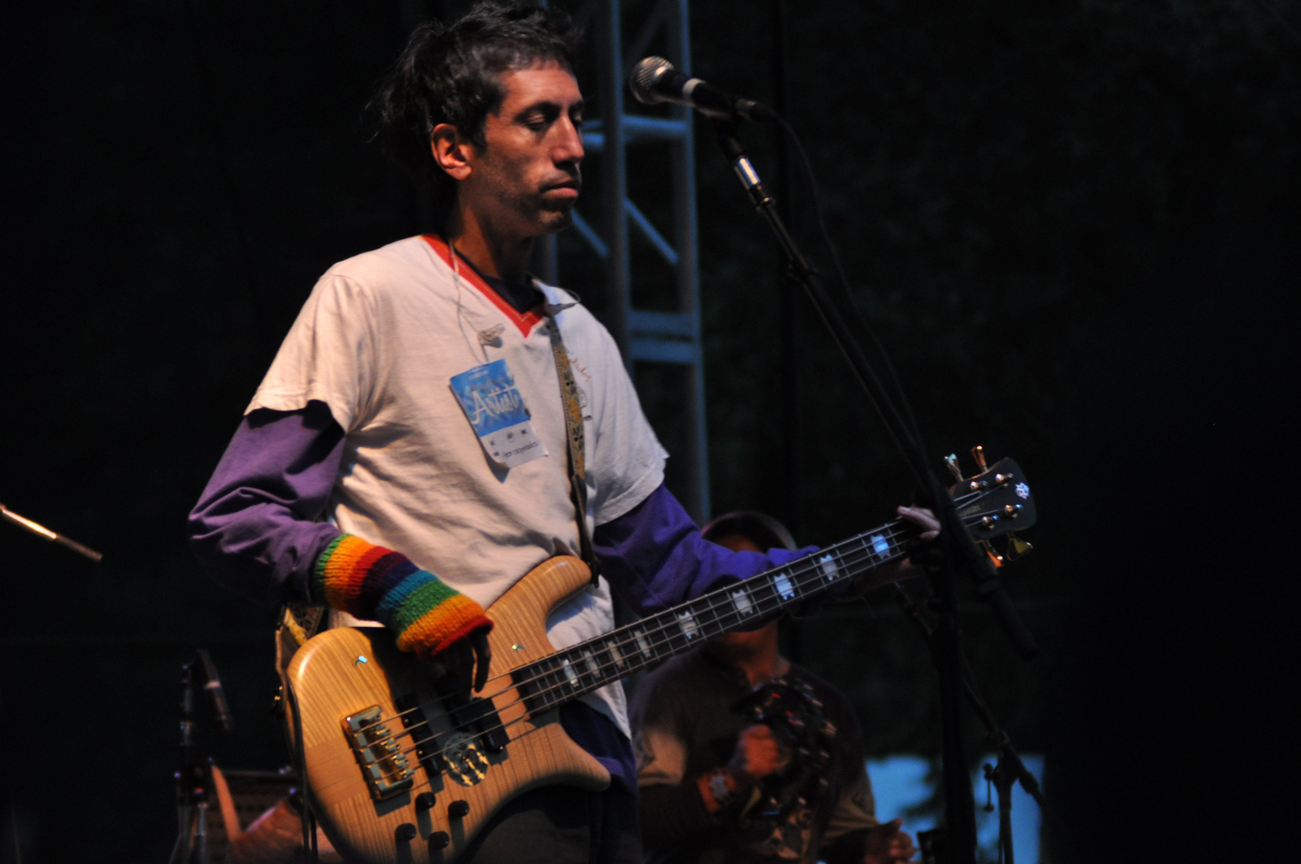 Aterciopelados play at Bumbershoot, Seattle Center, Seattle, Washington.